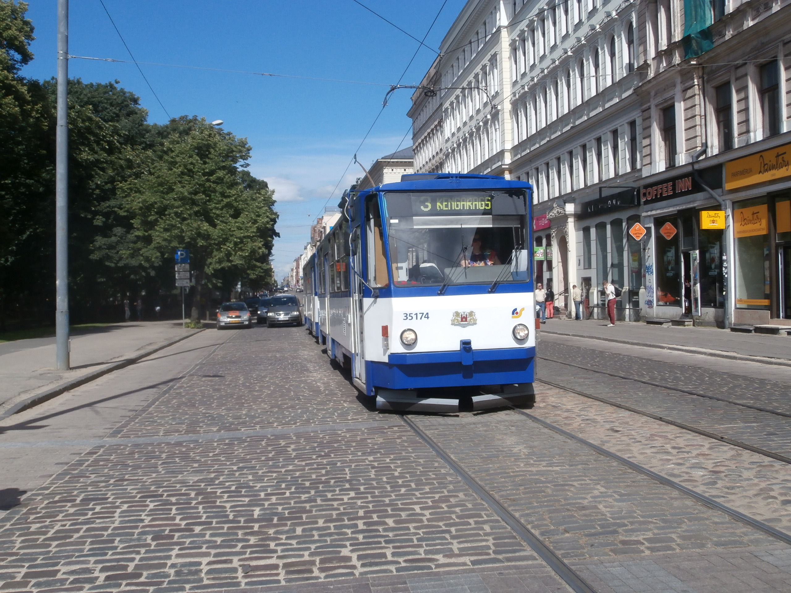 Tram 35174 at Merķeļa iela stop in the Krišjāņa Barona iela in Riga 8 July 2016 (Tatra T3MR (T6B5-R))